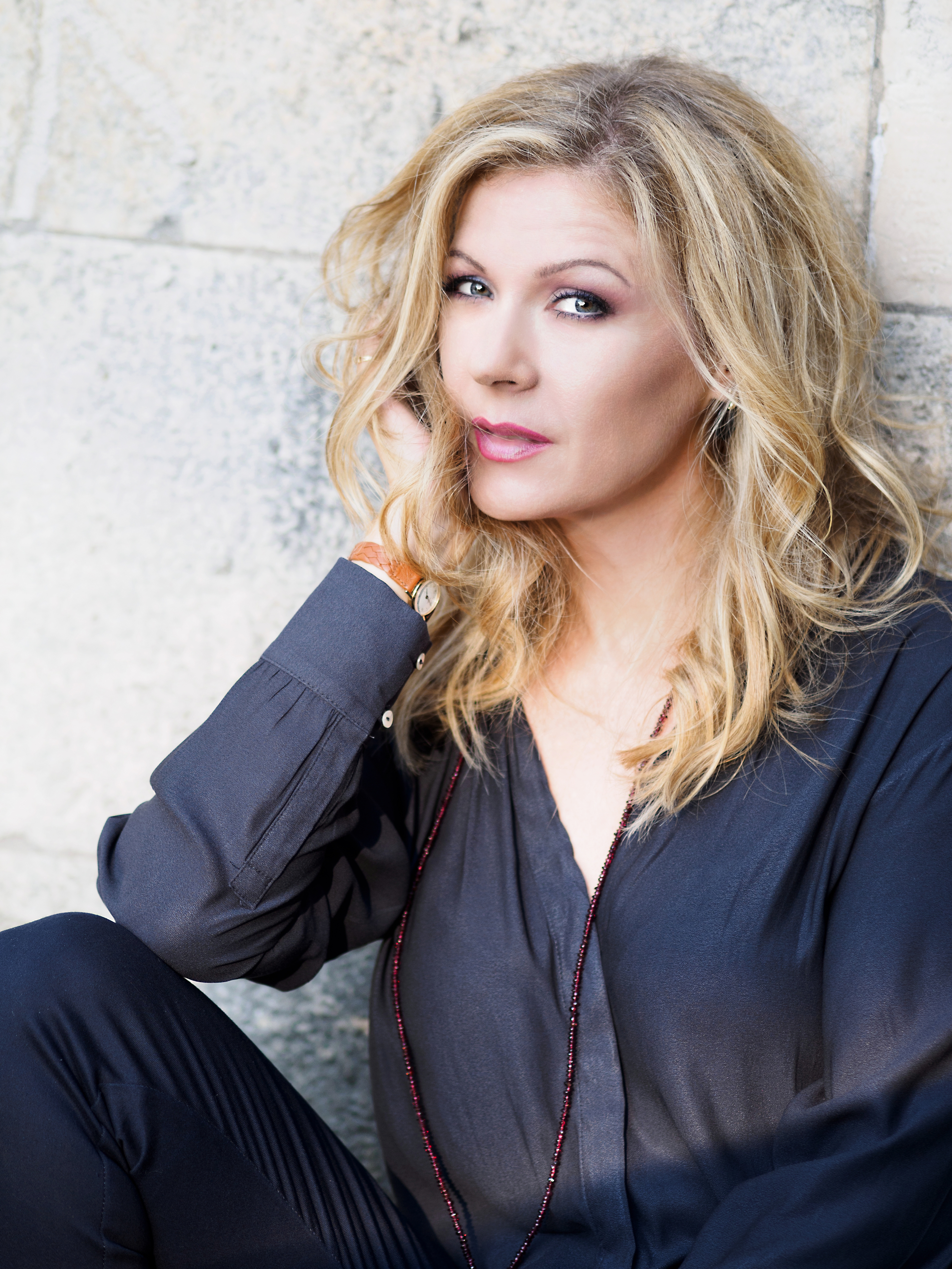 Silvia de Leonardis 23.07.2017